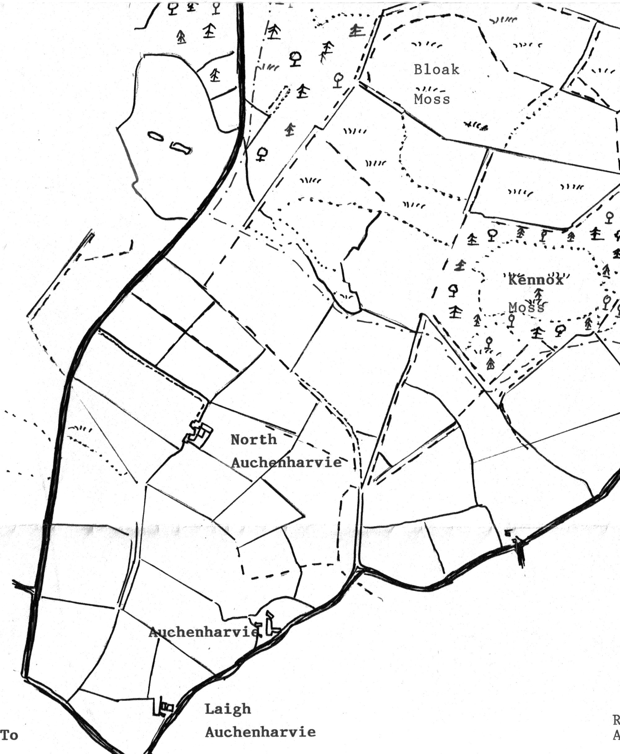 A map of Auchenharvie by Torranyard, North Ayrshire, Scotland.